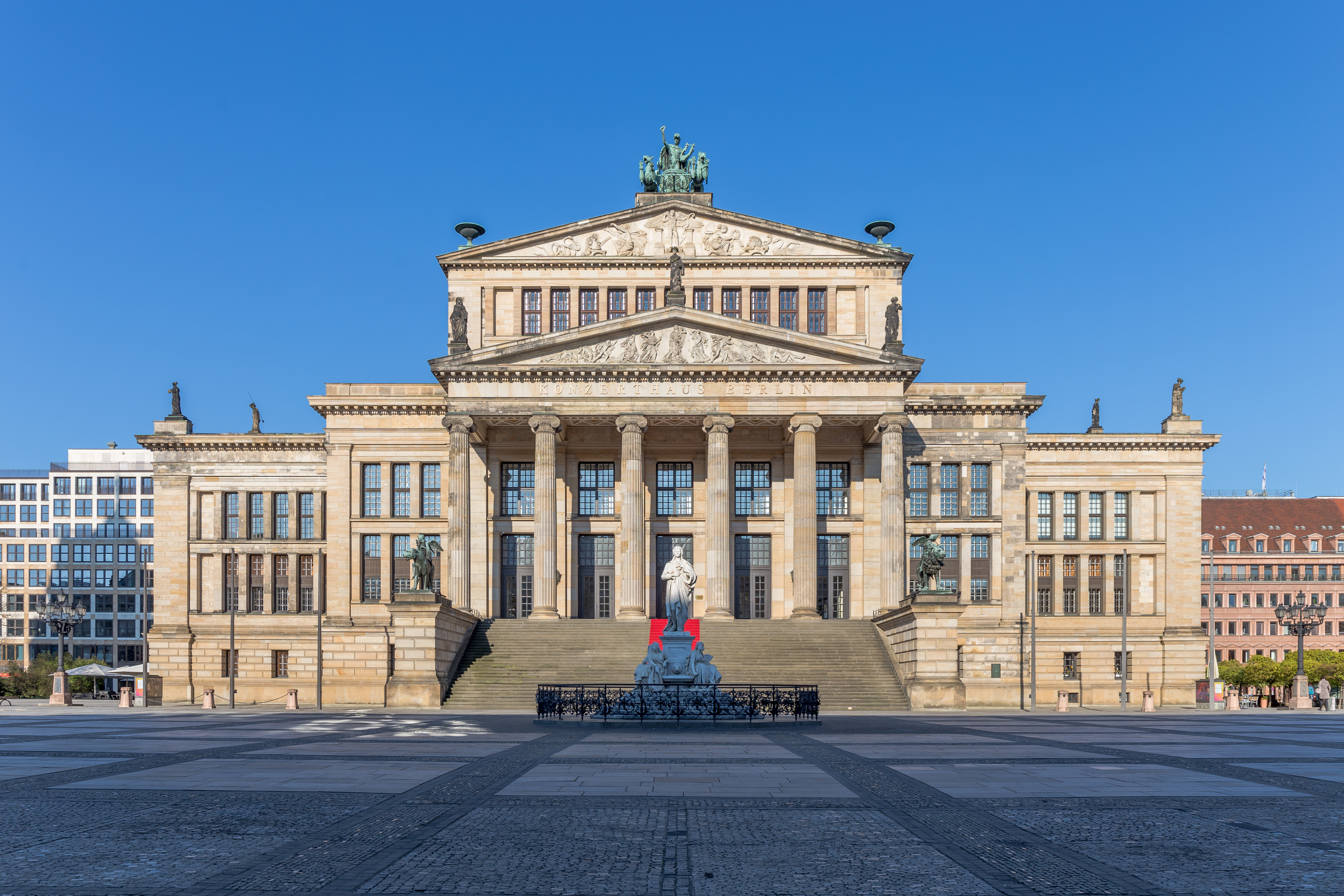 The concert hall is a central building on the Gendarmenmarkt. The classical building is one of the major works of the architect Karl Friedrich Schinkel. It was opened in 1821 as the Royal Playhouse and was from 1919 to 1945 Prussian State Theatre. In 1994, it was named "Konzerthaus Berlin".